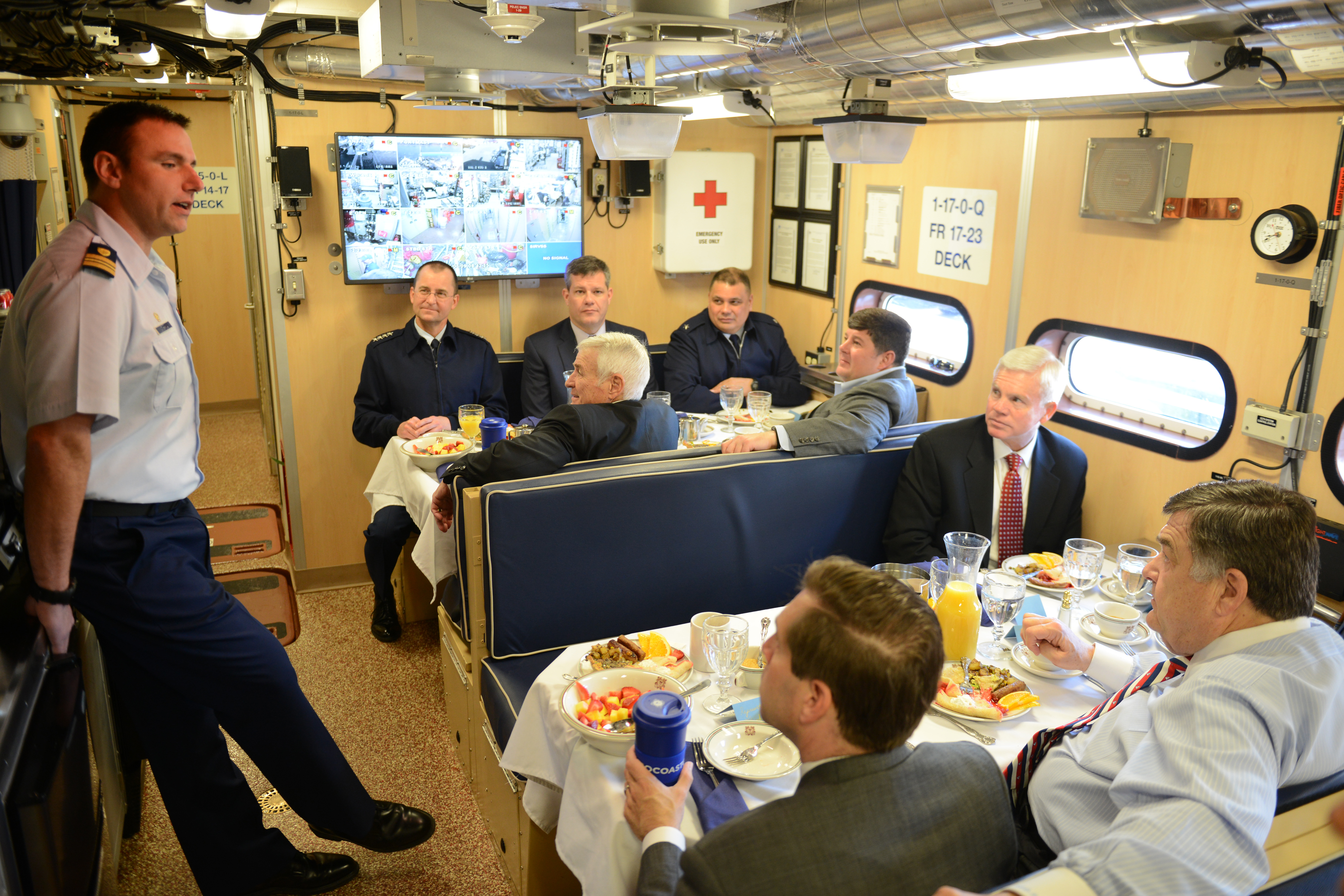 Congressmen listen to Lieutenant Commander Joe Rizzo, when his vessel, the USCGC Lawrence Lawson, when she visited Washington DC Original caption: “Coast Guard Lt. Cmdr. Joe Rizzo, cutter Lawrence Lawson commanding officer, speaks to U.S. Representatives from the House Appropriations Commitee during breakfast aboard the Lawrence Lawson while in Washington, D.C., Thursday, Mar. 9, 2017. The U.S. Representatives had an opportunity to tour the newest ship in the Coast Guard fleet prior to its Mar. 18, 2017 commissioning in Cape May, N.J. U.S. Coast Guard photo by Petty Officer 2nd Class Barry Bena”